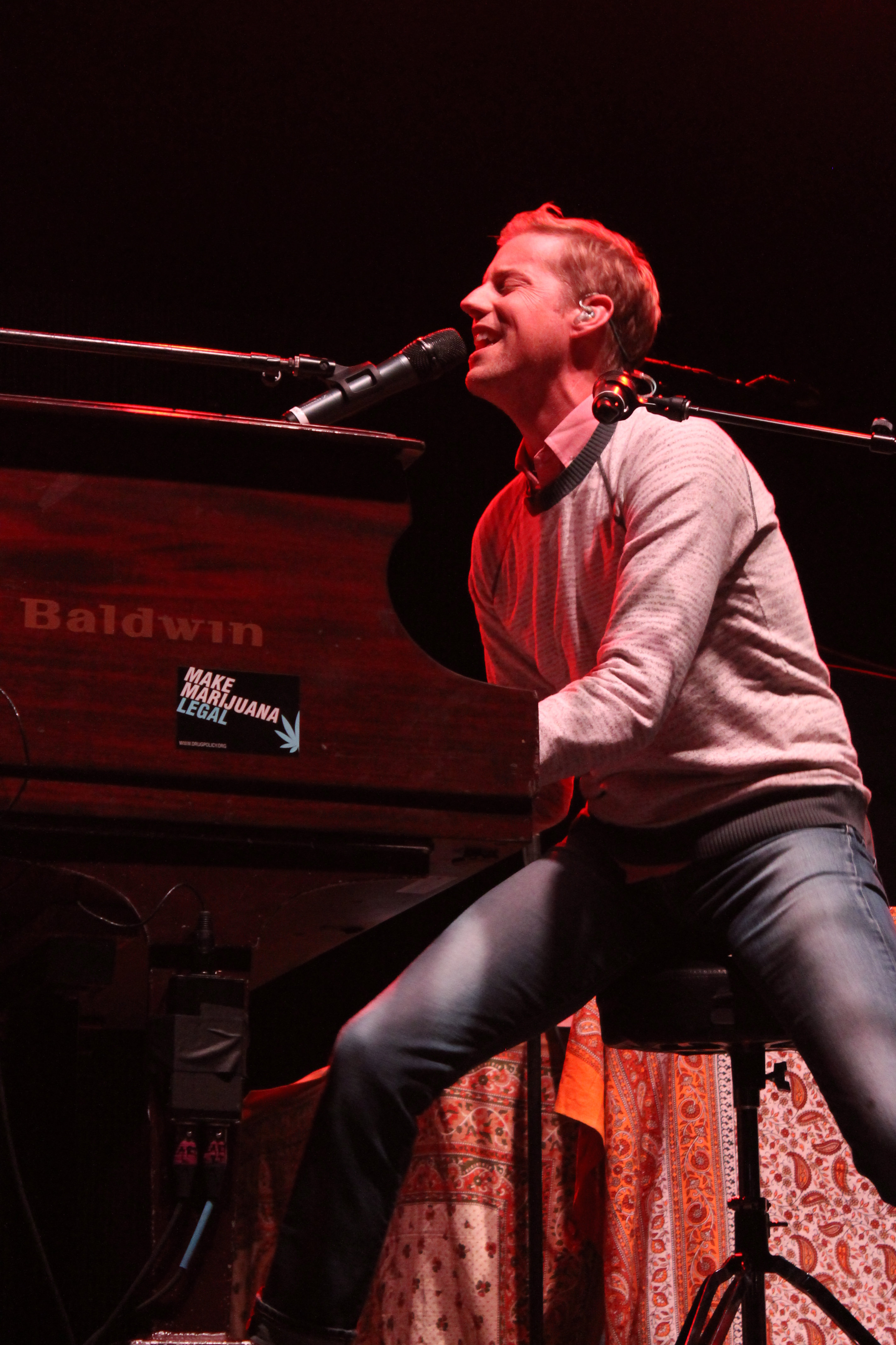 Andrew McMahon playing in Wisconsin Dells, July 19 2014